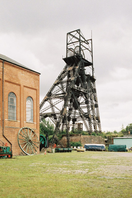 Astley Green Colliery Another view of the headframe with part of the engine house and other preserved colliery equipment